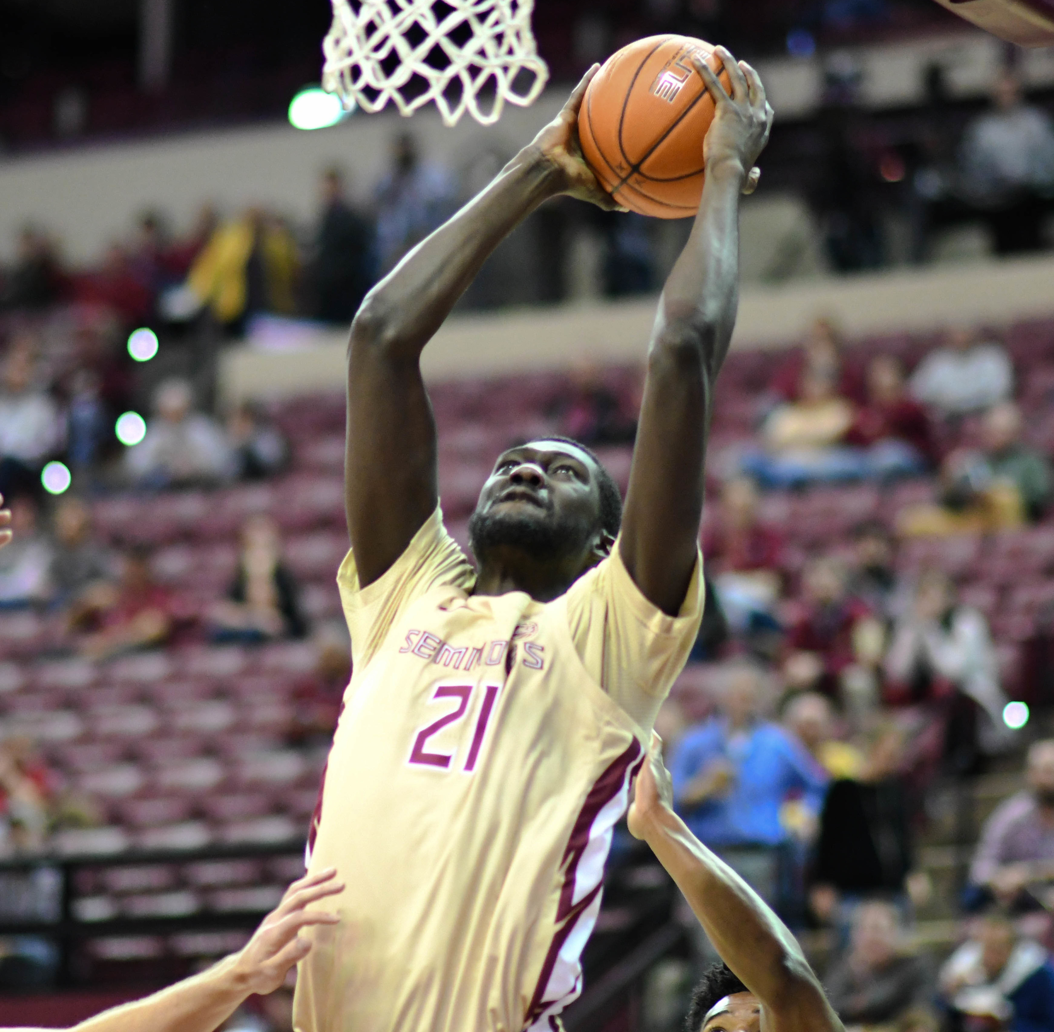 FSU senior center Christ Koumadje (21) dunking the basketball in the first half of the FSU vs Southeast Missouri game in the Tucker Center on December 17, 2018.